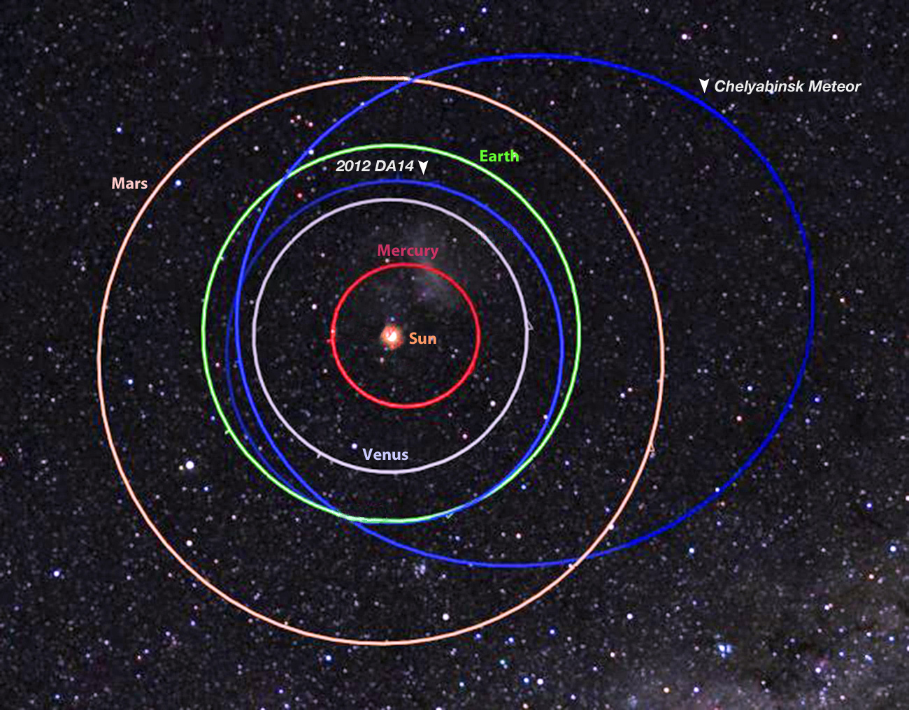 How can we tell that the Russian meteor isn't related to asteroid 2012 DA14? One way is to look at meteor showers -- the Orionids all have orbits similar to that of to their parent comet, Halley. Similarly, the Geminids all move in orbits that closely resemble that of the asteroid 3200 Phaethon, which produced them. So if the Russian meteor was a fragment of 2012 DA14, it would have an orbit very similar to that of the asteroid. It does not... In this image, the orbit of the Earth is the green circle. That of asteroid 2012 DA14, which passed by Earth, is the smaller nearly circular blue ellipse that is almost entirely within the orbit of the Earth. The larger, more elongated blue ellipse, stretching well beyond the orbit of Mars, is the first determination of the orbit of the Russian meteor. The two are nothing alike. This is one reason -- a big one -- why NASA says the Chelyabinsk meteor and asteroid 2012 DA14 are not connected. (The original NASA image has been modified by doubling the linear pixel density, brightening and adding or editing labels.)